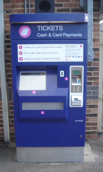 A Scheidt & Bachmann Ticket XPress Machine self-service railway ticket issuing machine at Tilbury Town railway station, Essex. This machine is numbered 3435 and is in the livery of the c2c operating company.